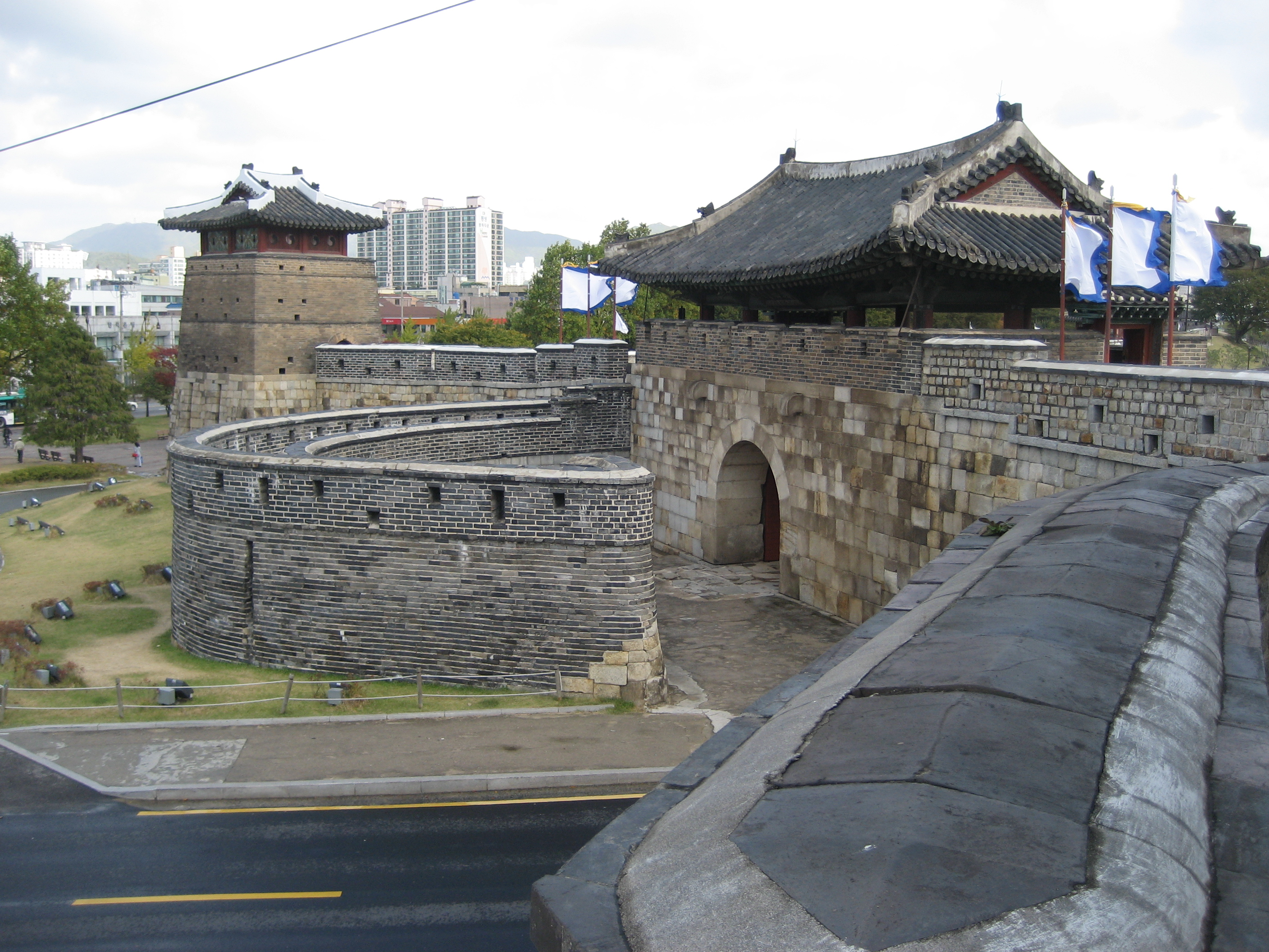 Hwaseong Fortress, Suwon, Seoul